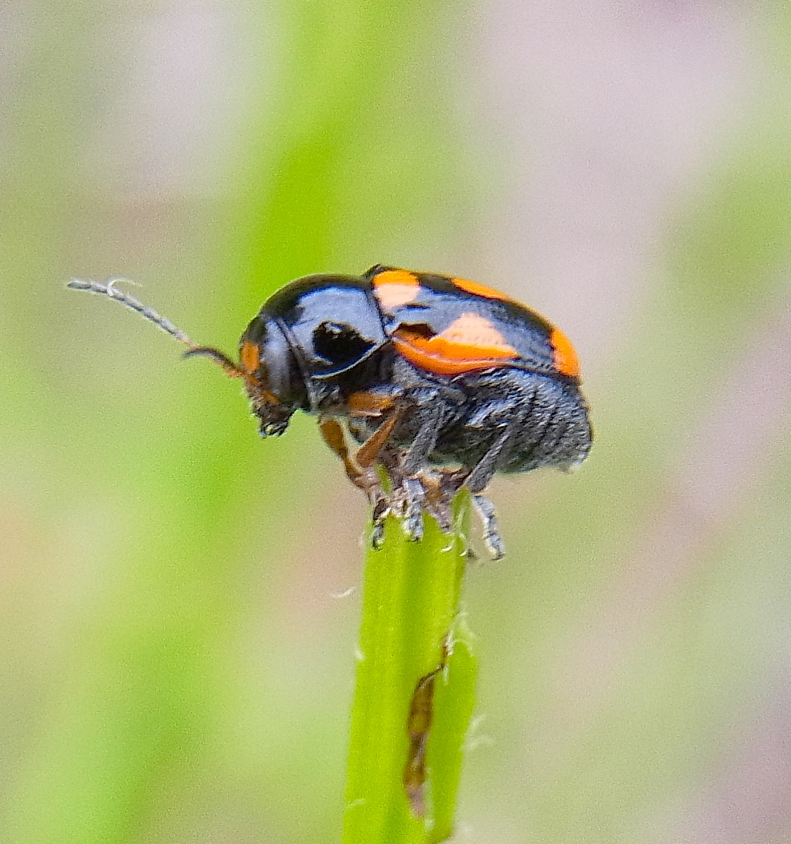 Cryptocephalus octoguttatus from Northern Spain, Sena de Luna, León enviabout 50 km south of Oviedo, about 1100 m high at 2013-07-19